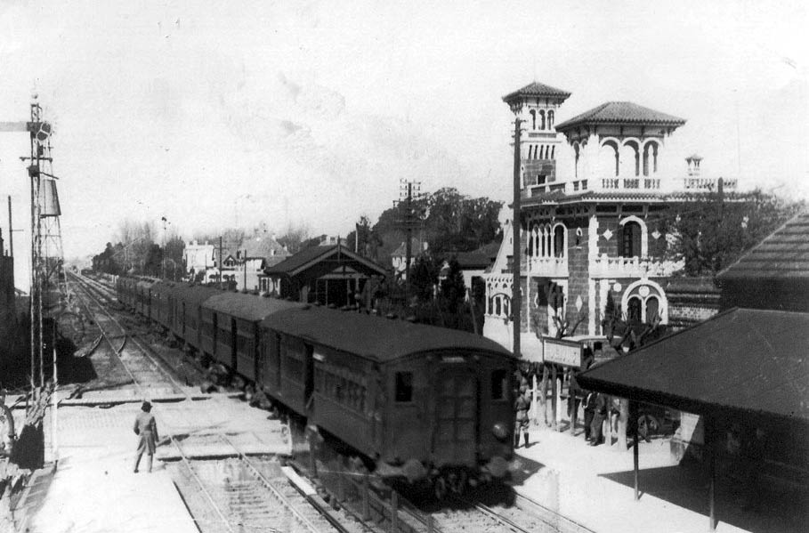 Olivos train station, in Vicente López Partido of Buenos Aires Province, Argentina.